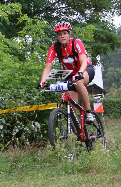 This work is free and may be used by anyone for any purpose. If you wish to use this content, you do not need to request permission as long as you follow any licensing requirements mentioned on this page.